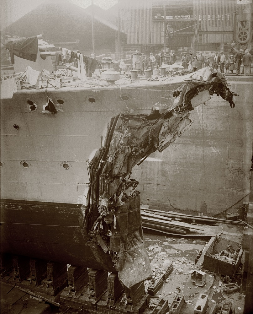 View of HMS Broke in dry dock on Tyneside, showing damage sustained at the Battle of Jutland